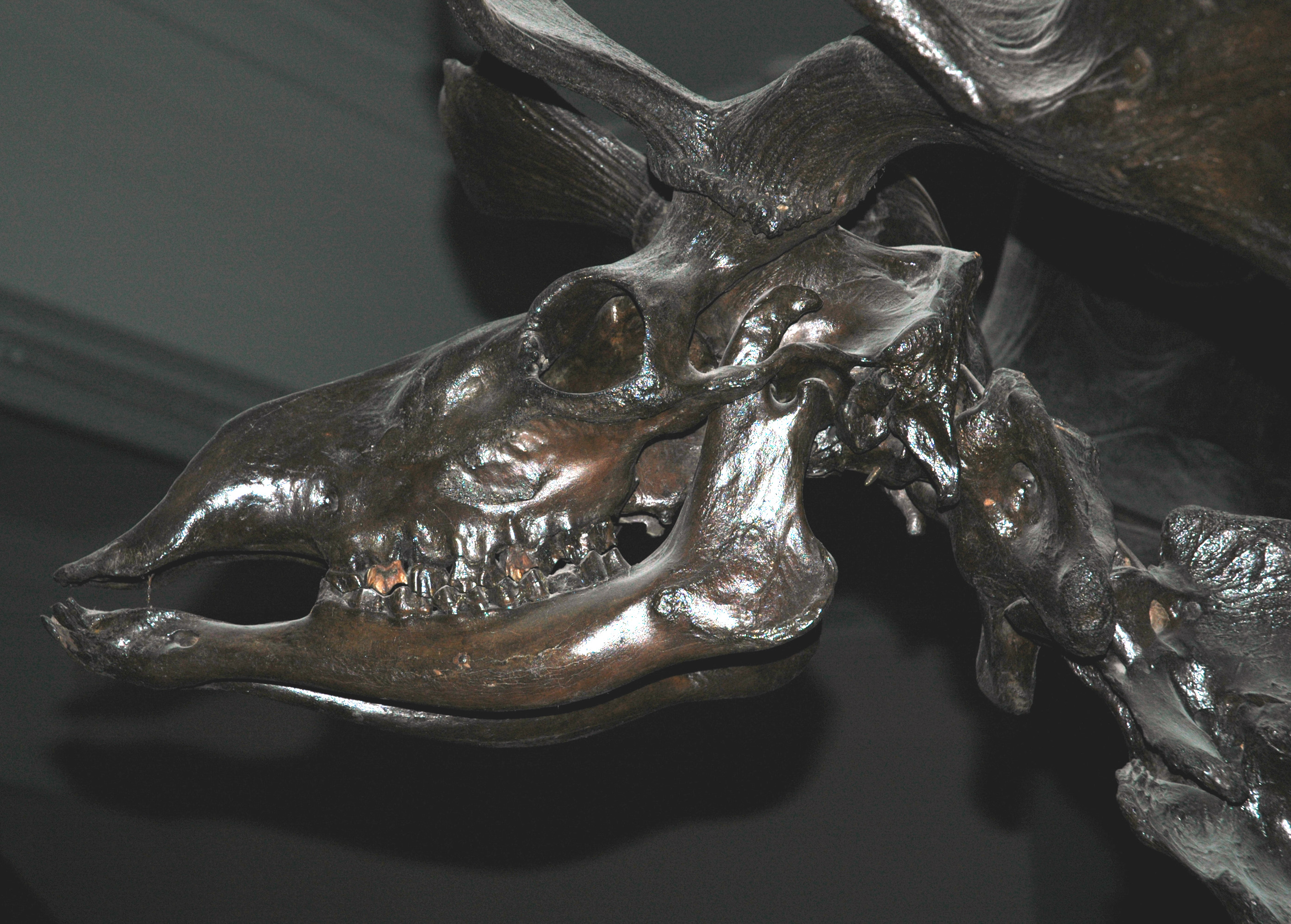 Megaloceros giganteus (Blumenbach, 1799) Irish elk skeleton from the Pleistocene of Ireland (public display, CM 71, Carnegie Museum of Natural History, Pittsburgh, Pennsylvania, USA). The famous Irish elk, or Megaloceros giganteus (Blumenbach, 1799), was a large, late Cenozoic deer that had enormous antlers. The species is well represented by numerous fossils found in Ireland. Its geographic range extended from northwestern Europe to northern Africa to eastern Asia. Its temporal range extends from the Pliocene to the Pleistocene to the early Holocene. Classification: Animalia, Chordata, Vertebrata, Mammalia, Artiodactyla, Cervidae Stratigraphy: peat bog, Pleistocene Locality: near Dublin, eastern Ireland By the way, some will insist that the traditional term "Irish elk" is incorrect, because it was a deer and that it isn't only found in Ireland. Common names do not have scientific significance - they never have. I would recommend that people "chill" when it comes to common names. As an example, many do not call starfish "starfish" anymore, the logic being that they are not fish (which is true). Their common name is now frequently "seastars". Well, they aren't stars, either. "Starfish" is fine - no one thinks they are fish.